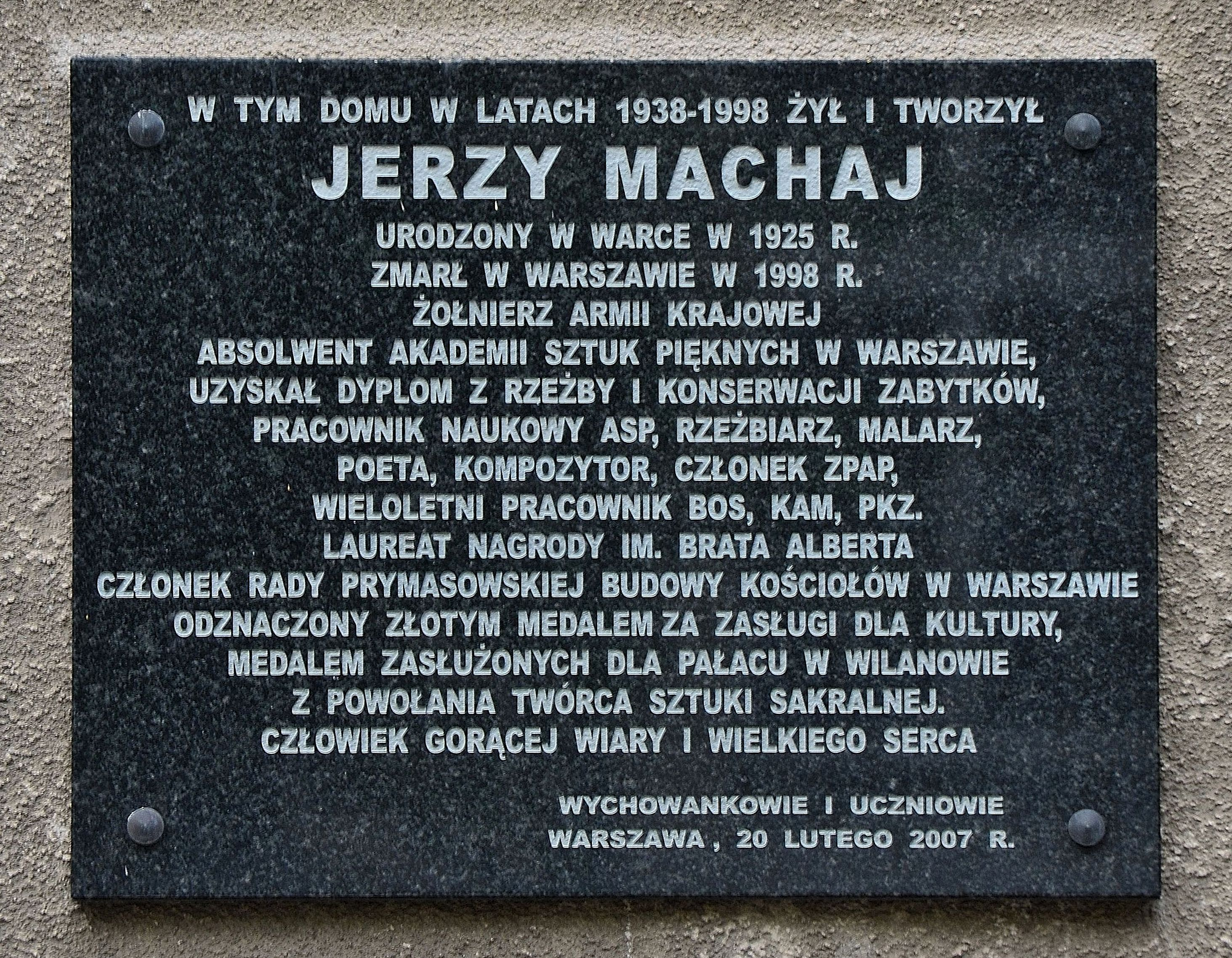 Commemorative plaque to Jerzy Machaj at 12 Zagórna Street in Warsaw